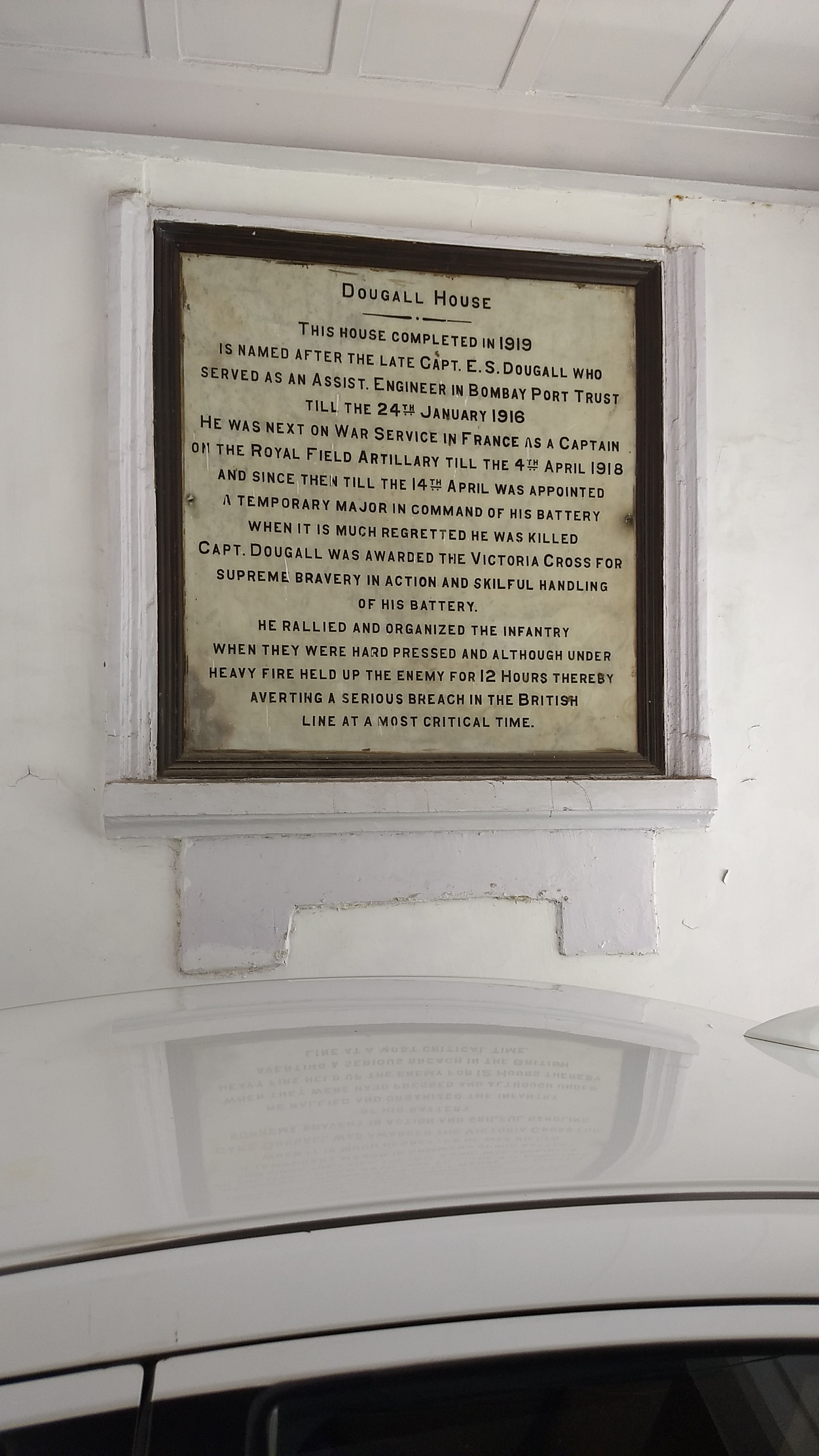 Memory plate on a building named after a British war heritage, in India